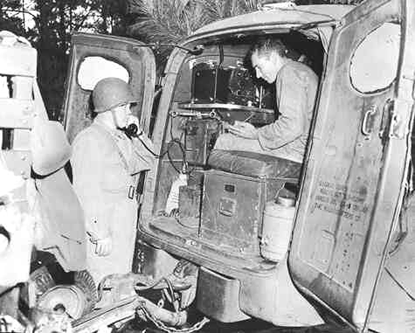 US Army Signal Corps photo of SCR-299 radio set in operation